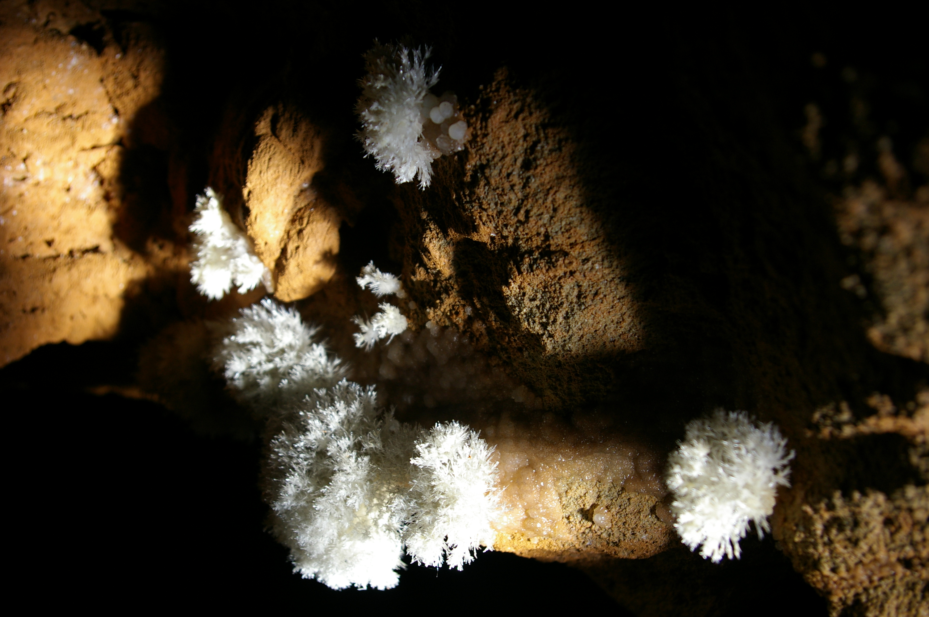 Aragonite "Flowers" directly growing from a clay basis